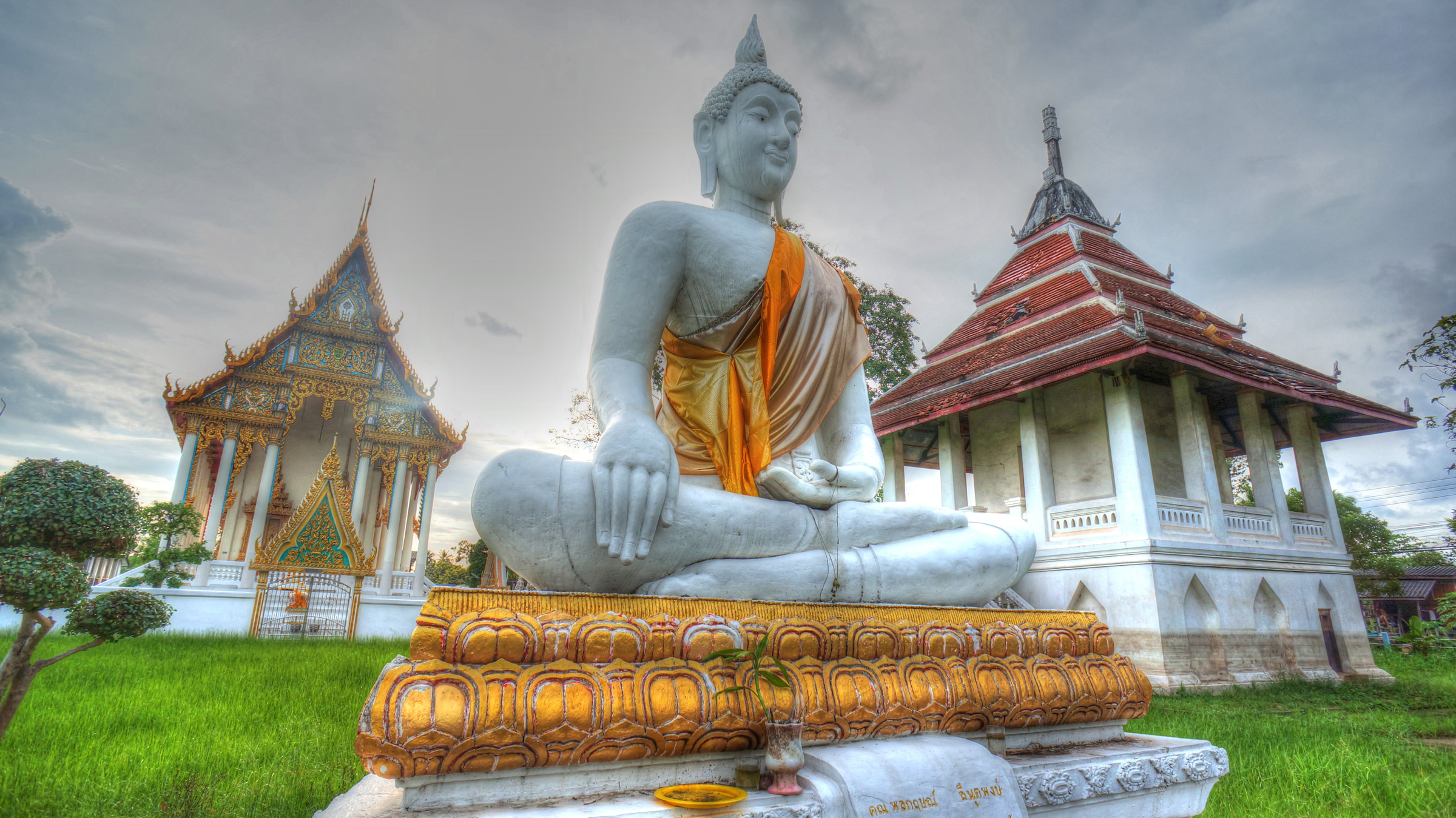 Wat Amphawan